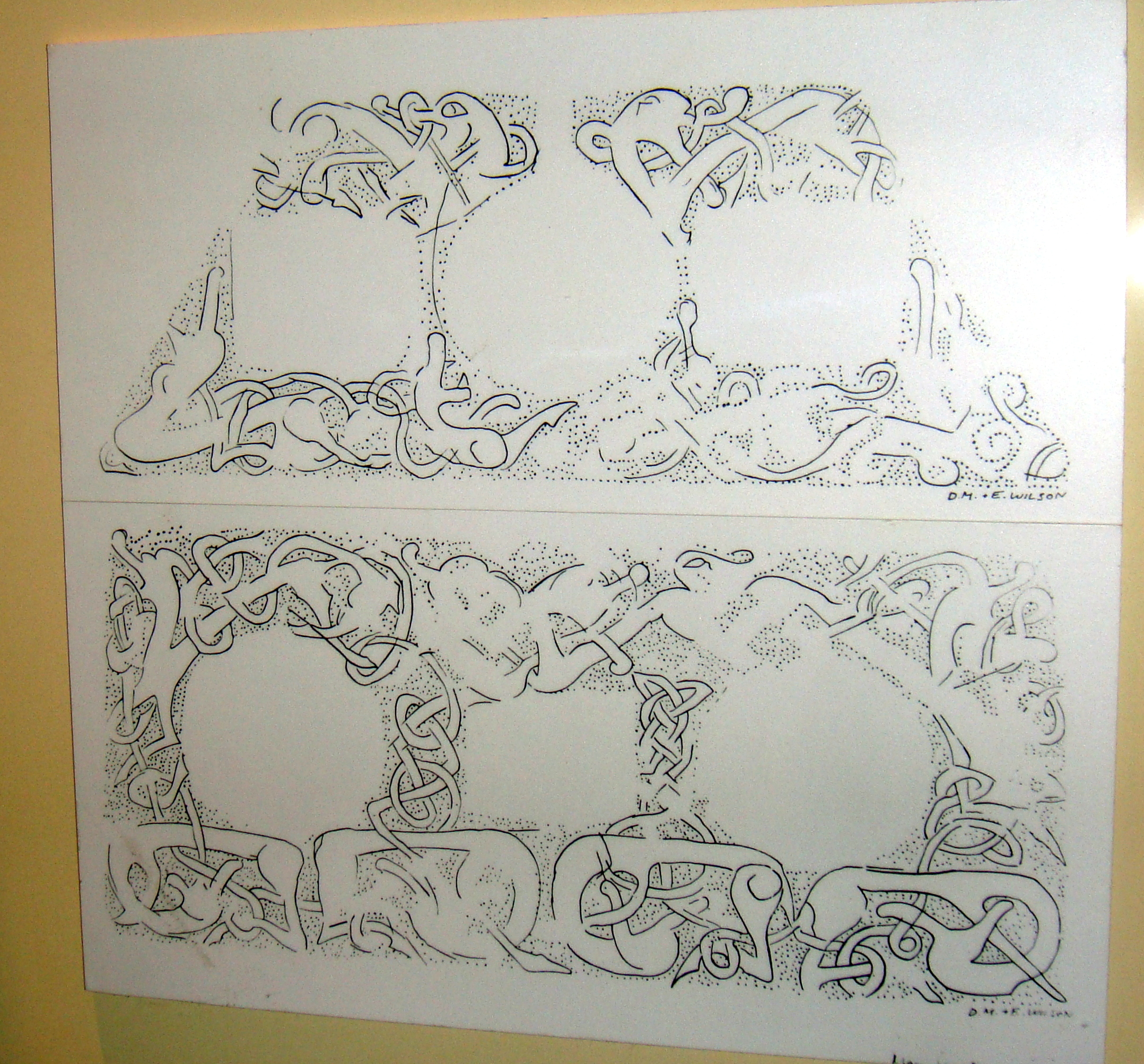 Draw from the Monymusk Reliquary in the National Museum of Scotland (Edinburgh). c. 750. Wood, silver and cooper.